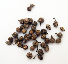 Image of dried uzazi fruit at 220 by 206 pixels